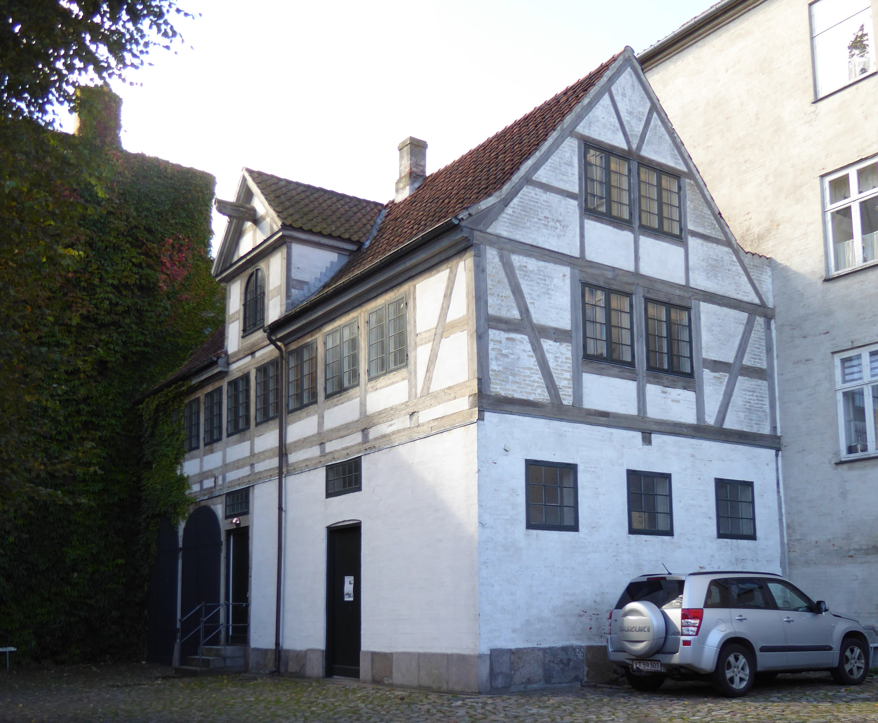 Listed Building at Sophie Brahes Gade 1C, located in the courtyard to the rear of Stephen Hansens Palæ in Helsingør, Denmark